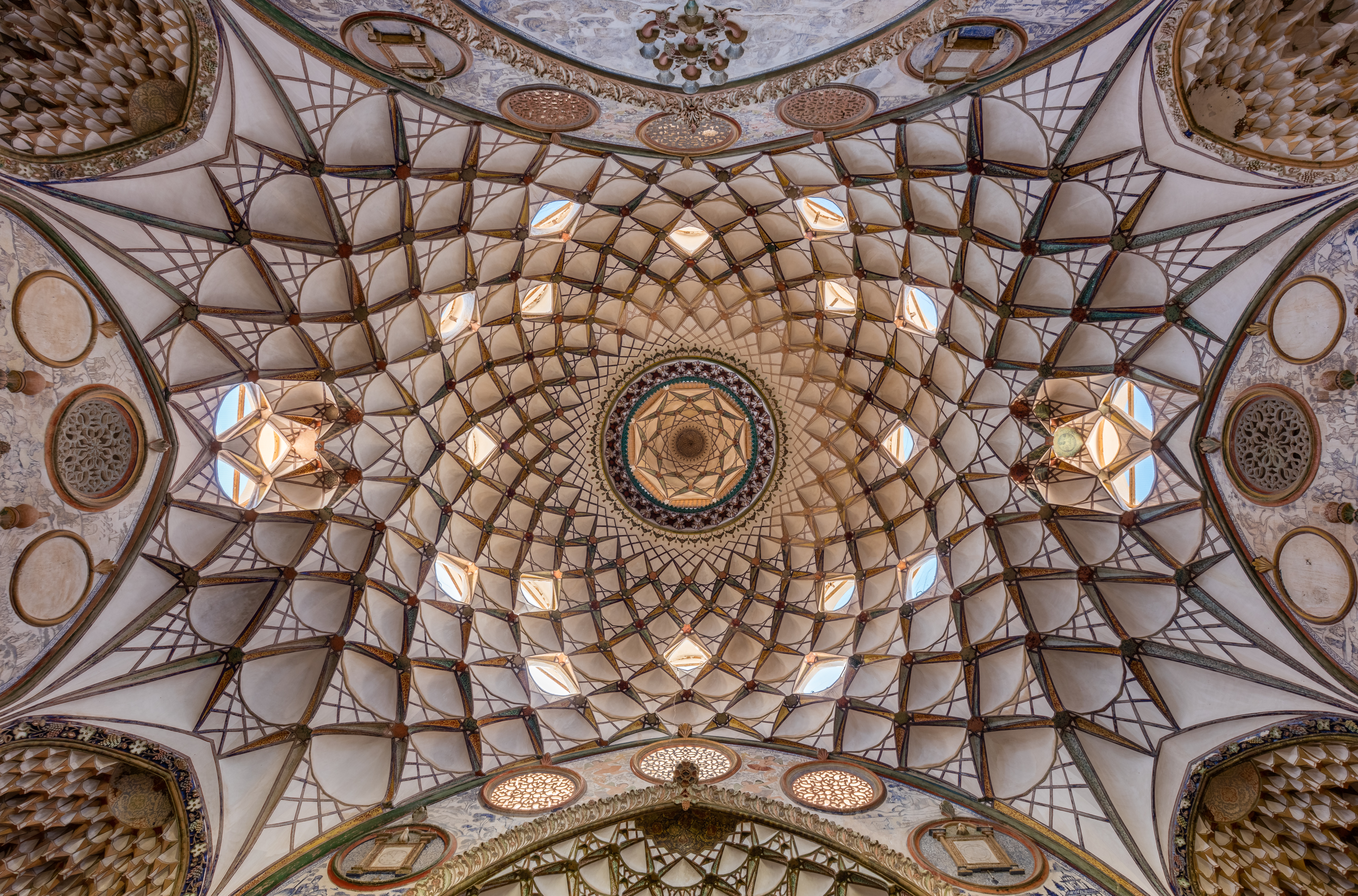 View of the rich ceiling of the interior courtyard of the Borujerdi House, a historic house located in Kashan, Iran. The house dates from 1857 and was constructed by architect Ustad Ali Maryam for a wealthy merchant as proof of love to his wife.